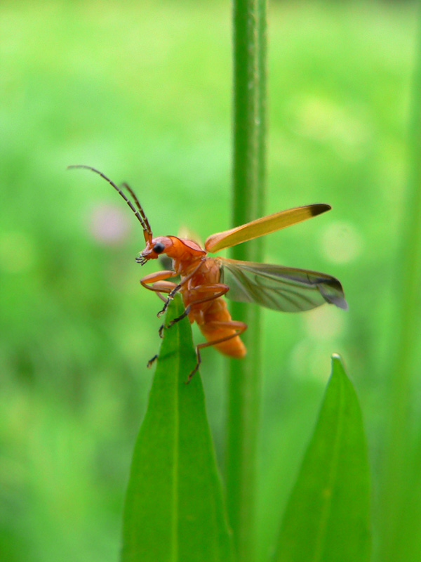 Rhagonycha fulva, a lucky shot, when I took the photo I didn't realize it was going to fly, it waws still. It opened the wings right when I clicked.